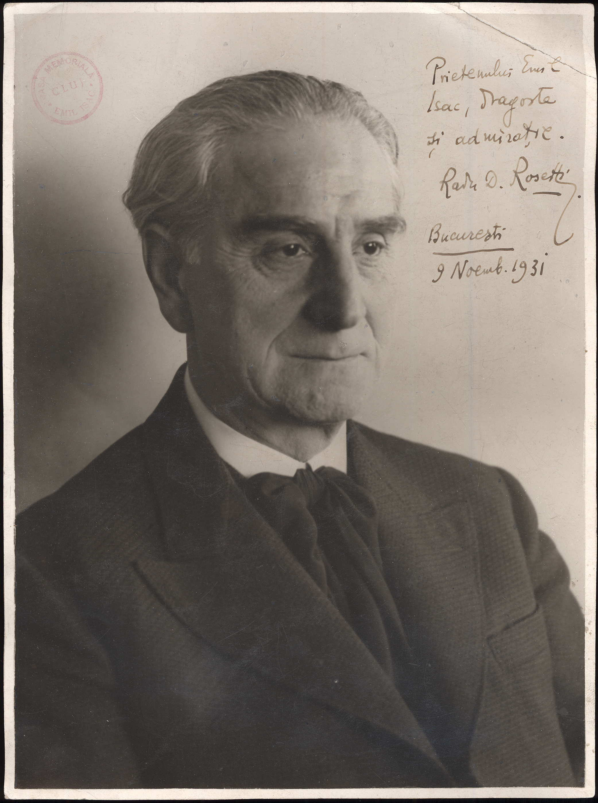 Romanian writer Radu D. Rosetti, with autograph to his colleague Emil Isac